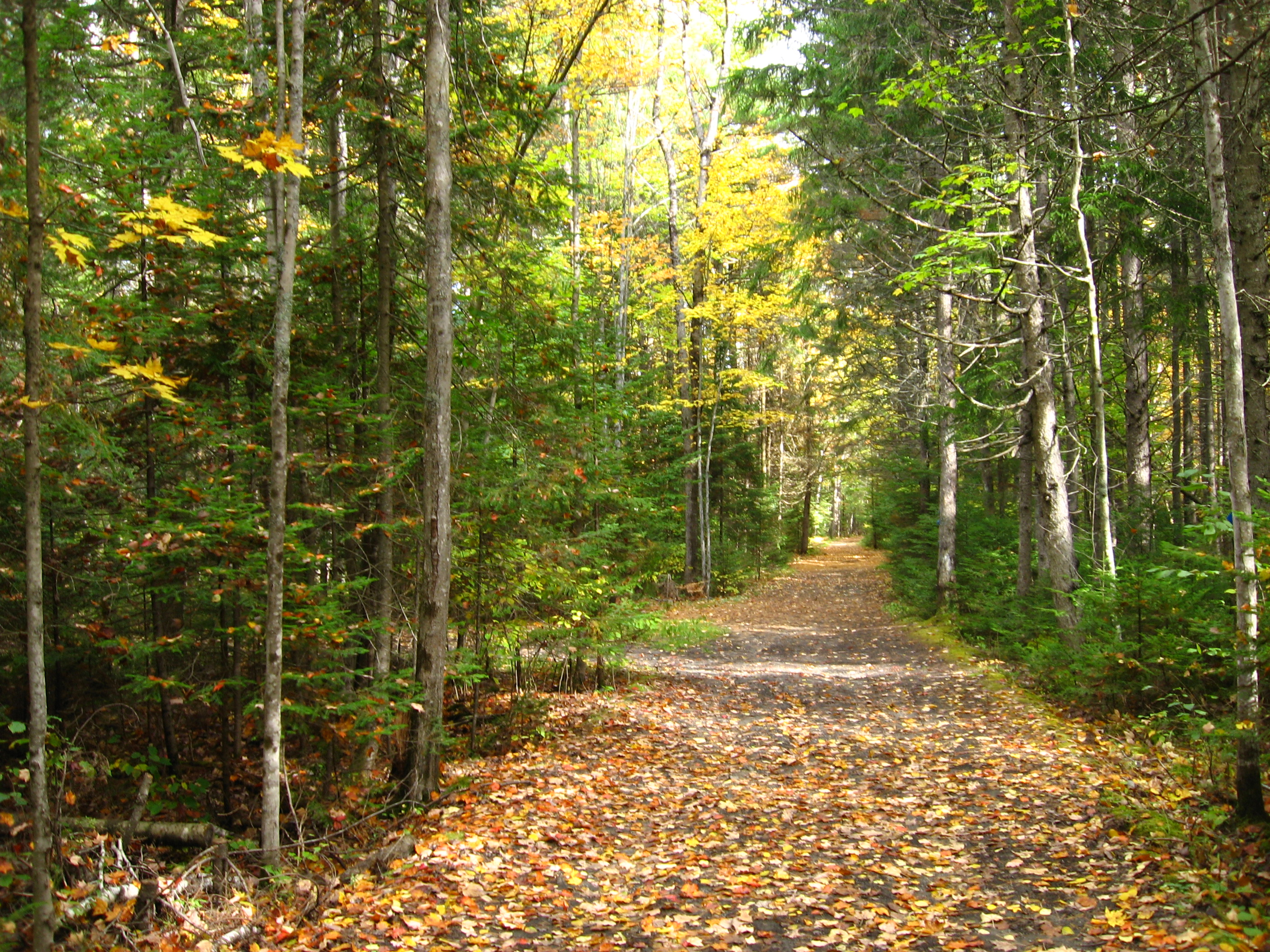 A trail through the University Forest at the University of Maine.